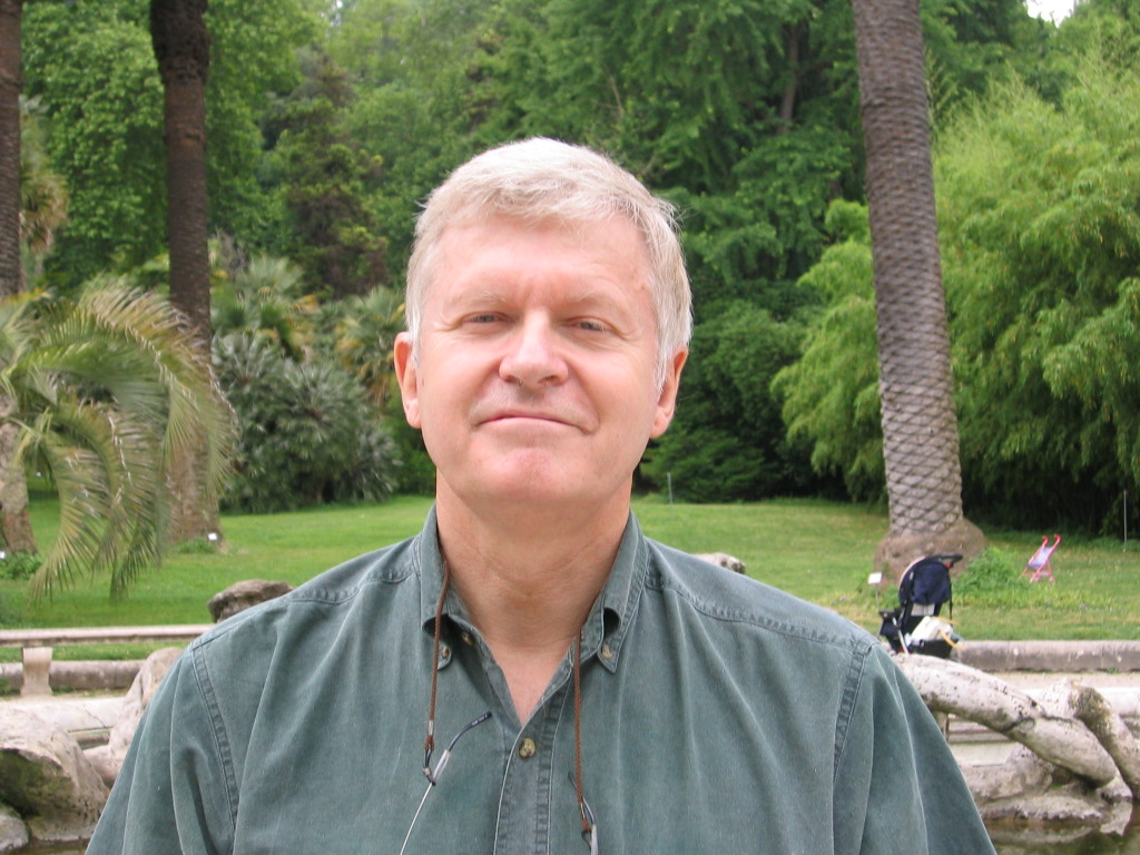 Arthur Scott Walters picture